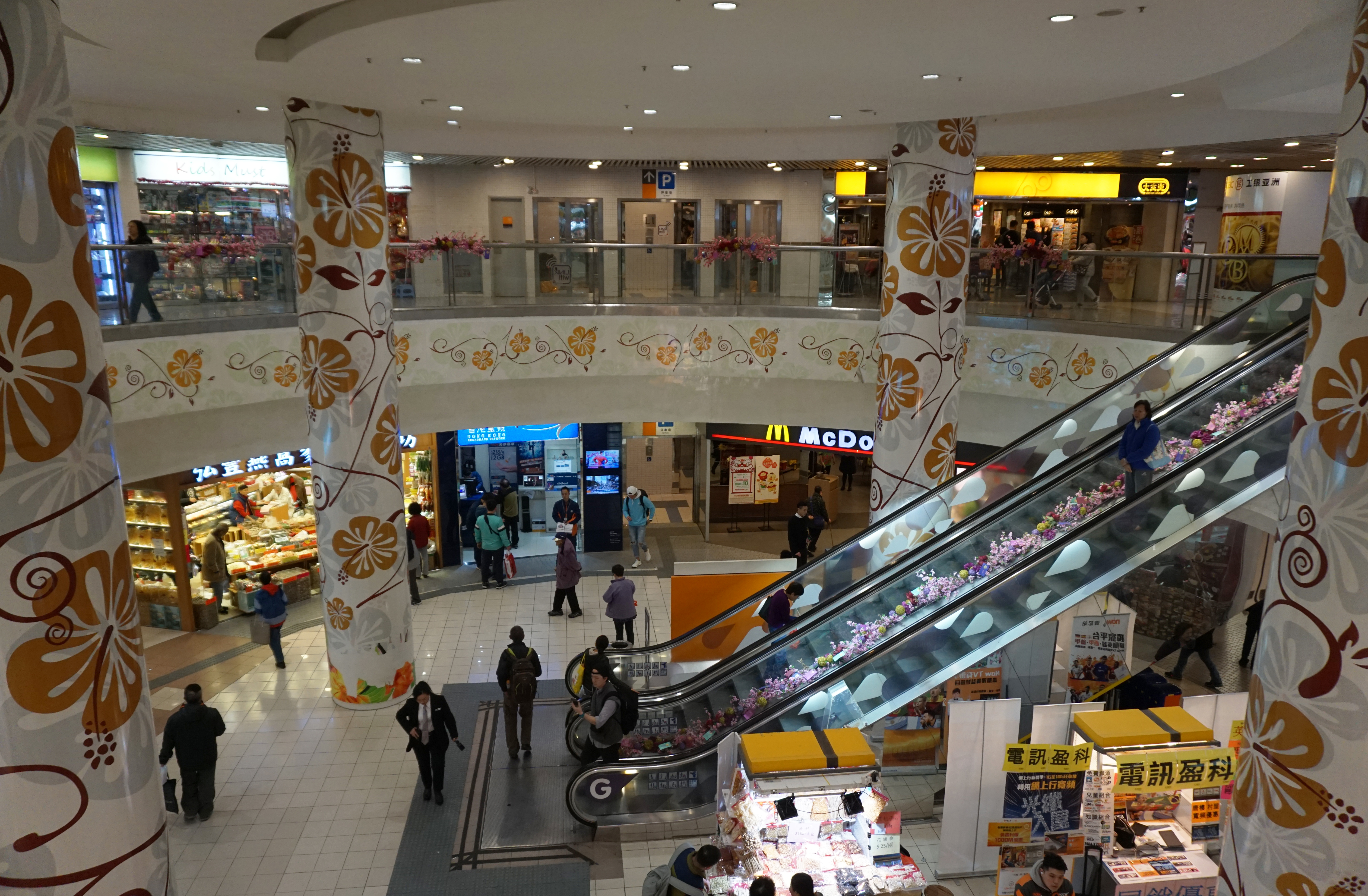 Chung On Shopping Centre in Heng On, Hong Kong.